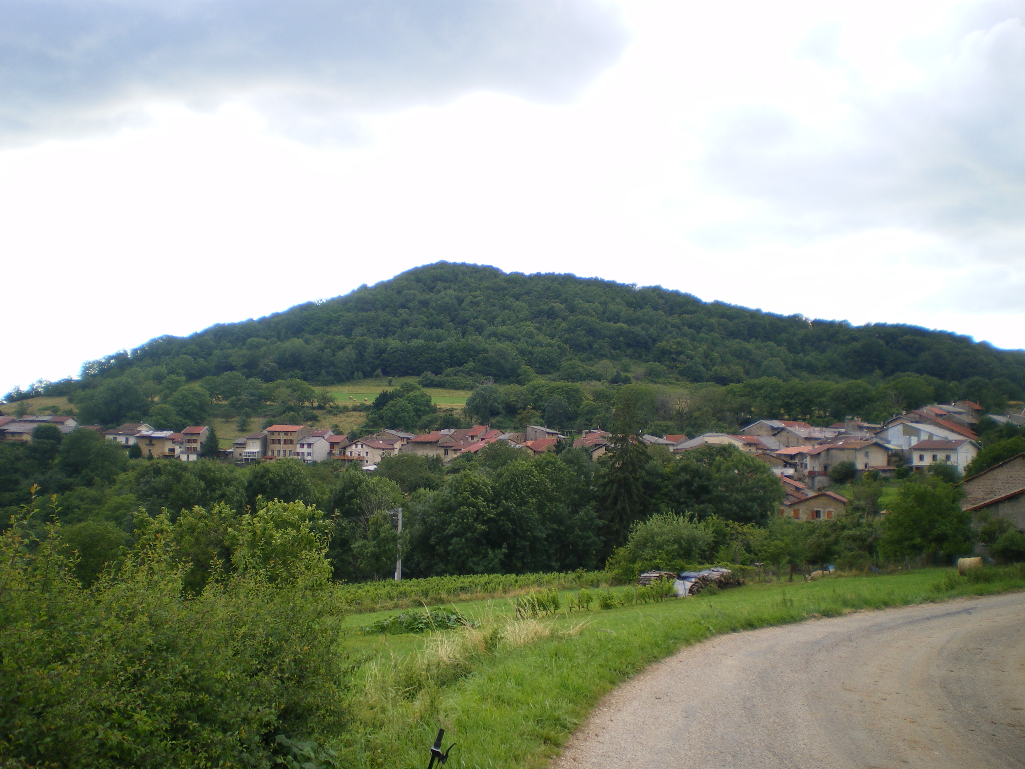 Sight of Boyeux, Boyeux-Saint-Jérôme